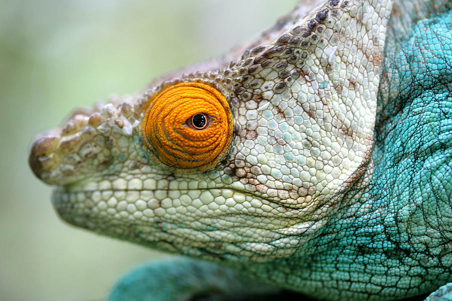 A close-up image of a Parson's chameleon (Calumma parsonii) at the Island of Sainte Marie, Madagascar